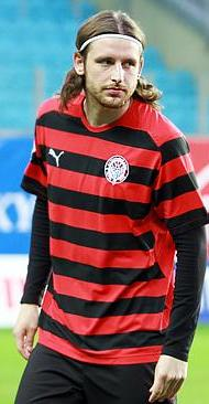 Denys Dedechko